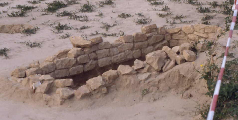 A simple stone grave on the Alamanni gravesite in Biengen near Bad-Krozingen, Germany.